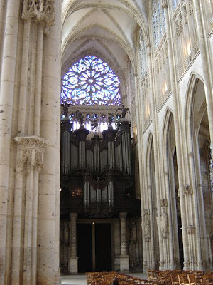 Organ at St Ouen, Rouen